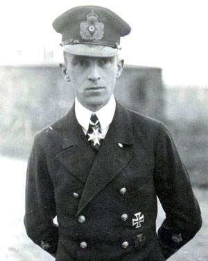 Kapitänleutnant zur See, Freiherr Horst Julius Treusch von Buttlar-Brandenfels with the Pour le Mérite, which he received in Tønder 9 April 1918.